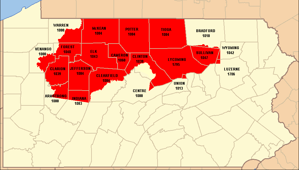 Map of the original territory of Lycoming County, Pennsylvania, United States as of January 1800.